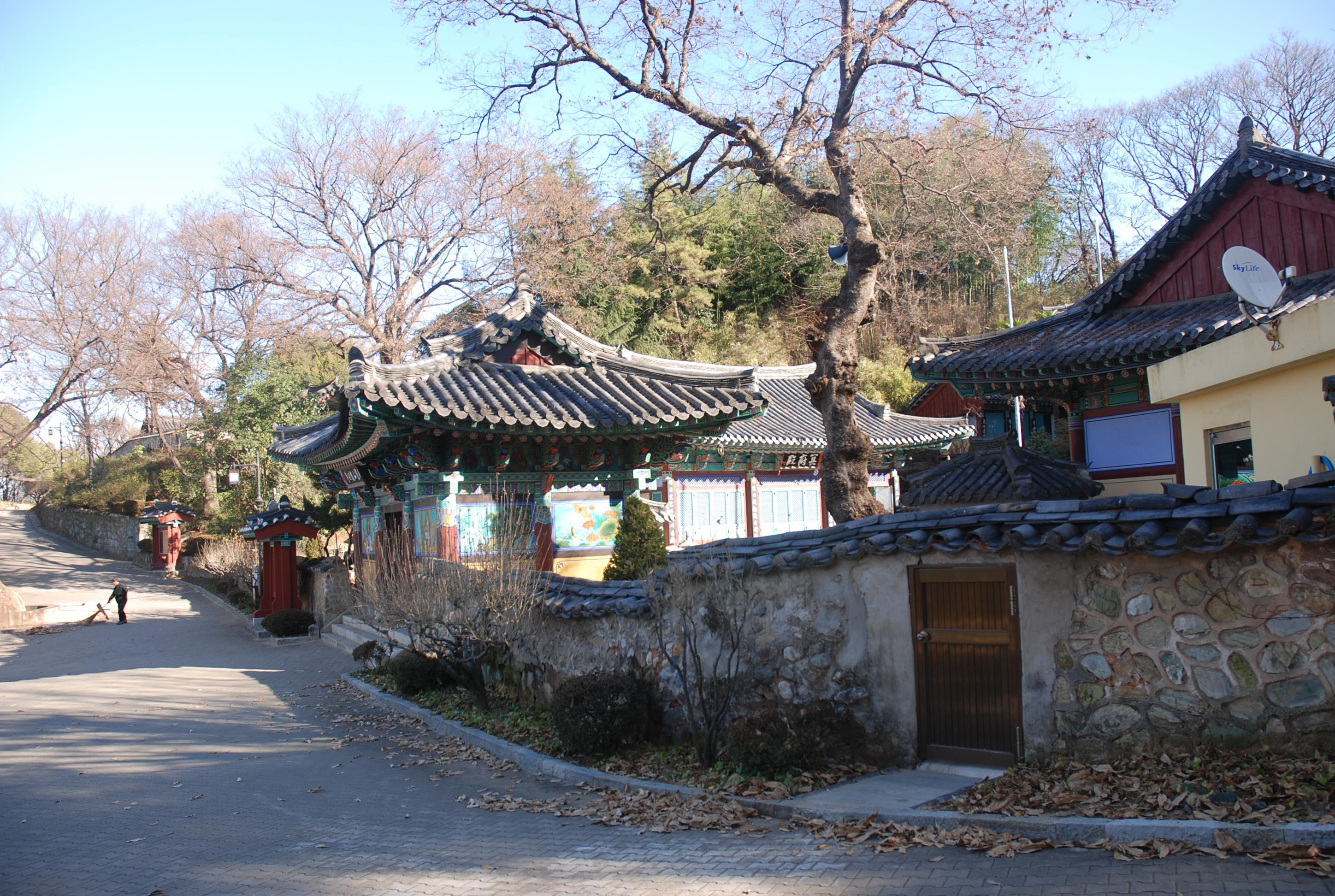 Hokuksa Temple in the Jinju Castle